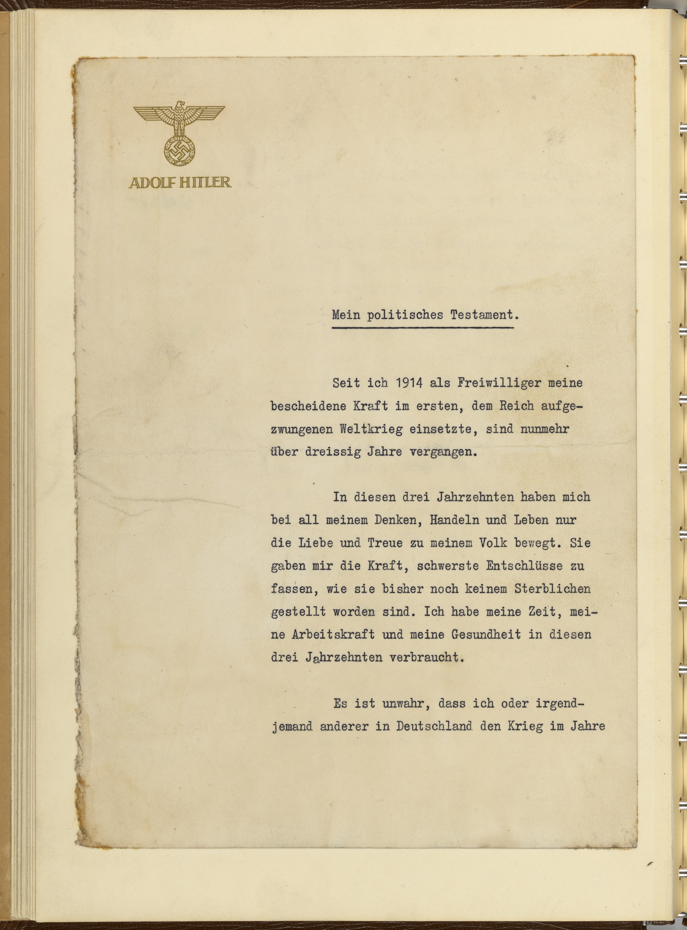 Digital File Name: 00357_2009_016 ReDiscovery Number: 00357 Last Will and Political Testament of Adolph Hitler, 1945 RG 242 Hitler Items Personal and Political Will of Adolph Hitler Box 2A